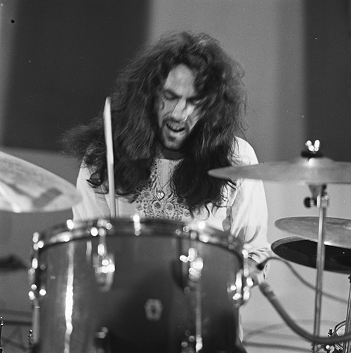 Cesar Zuiderwijk (Golden Earring) performing in TopPop Special (Dutch TV). Recorded 16 April 1971. Broadcast 21 May & 8 June 1971.